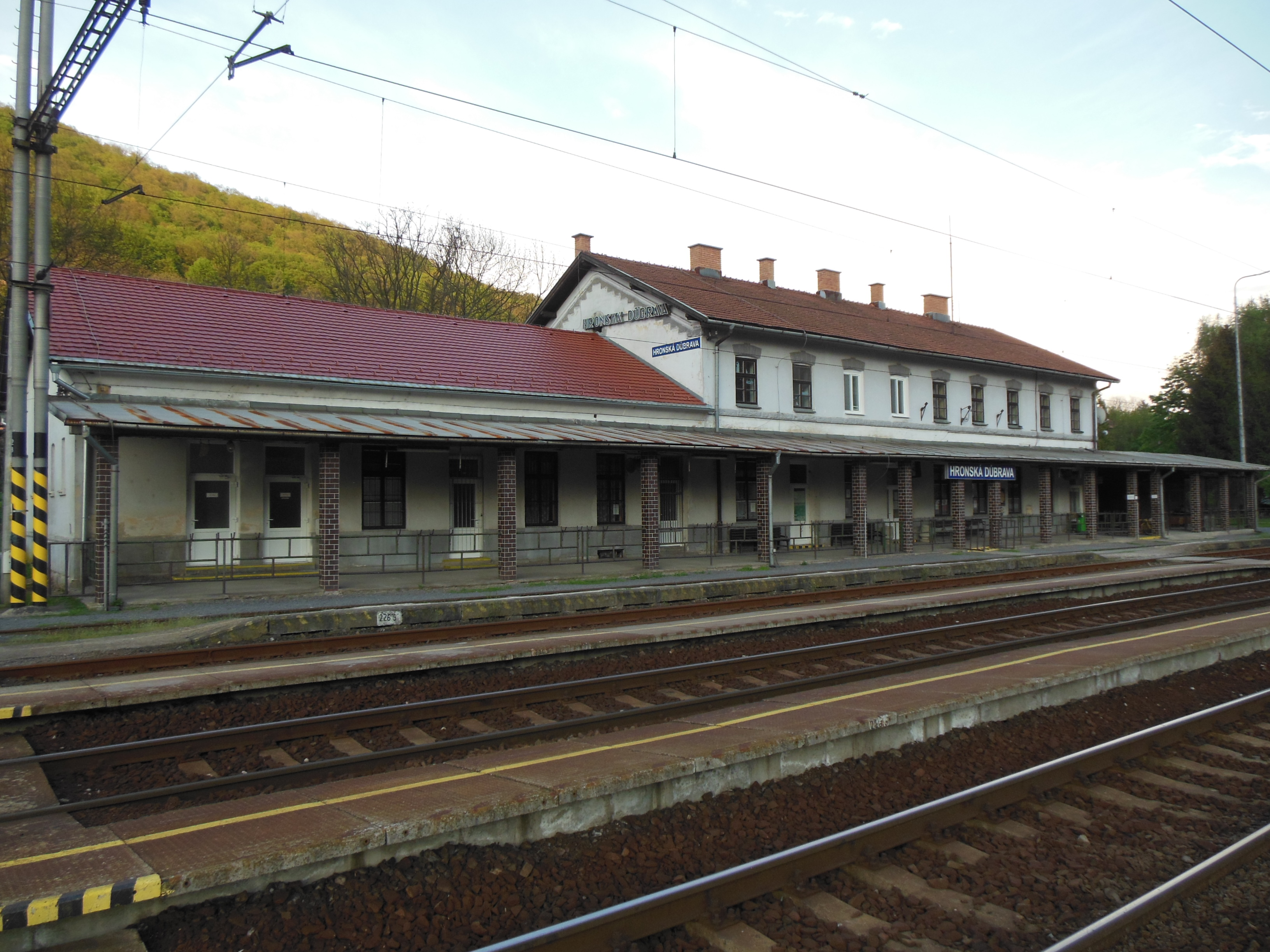 Railway station in Hronská Dúbrava, Slovakia